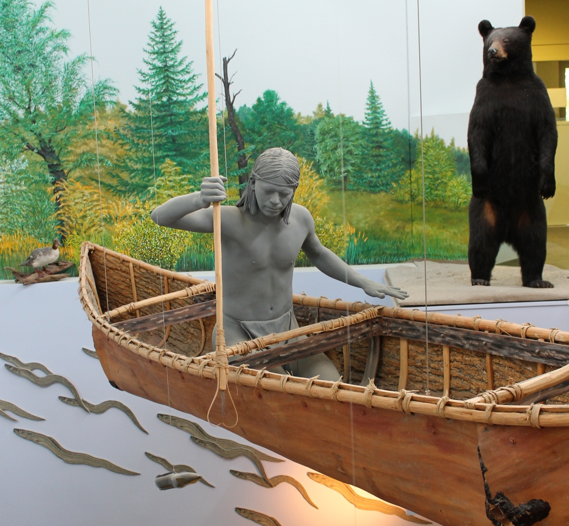 Display of a Native American youth fishing from a canoe at the Sainte Marie Among the Iroquois living history museum.